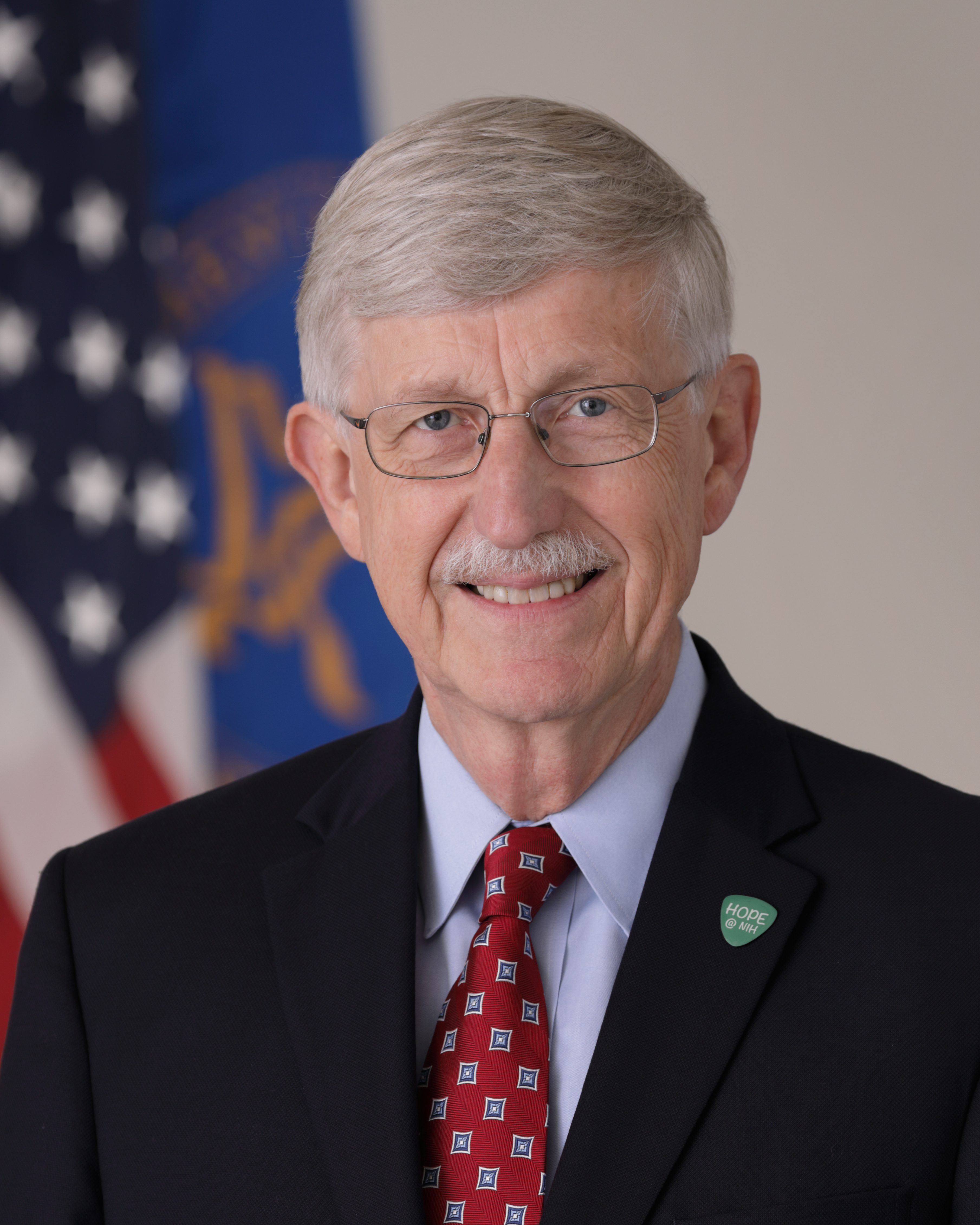 Francis S. Collins, M.D., Ph.D., was officially sworn in on August 17, 2009, as the 16th director of the National Institutes of Health (NIH). Credit: National Institutes of Health